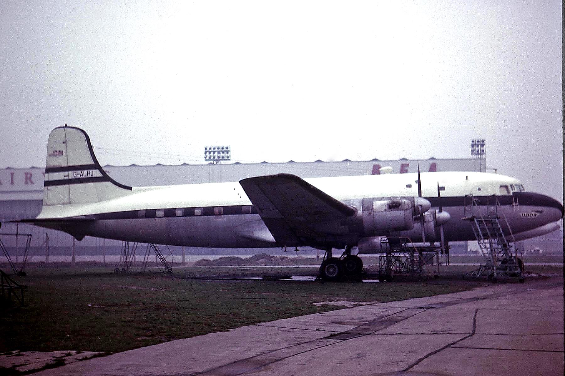 A picture of an airplane (name of it is on the file name).